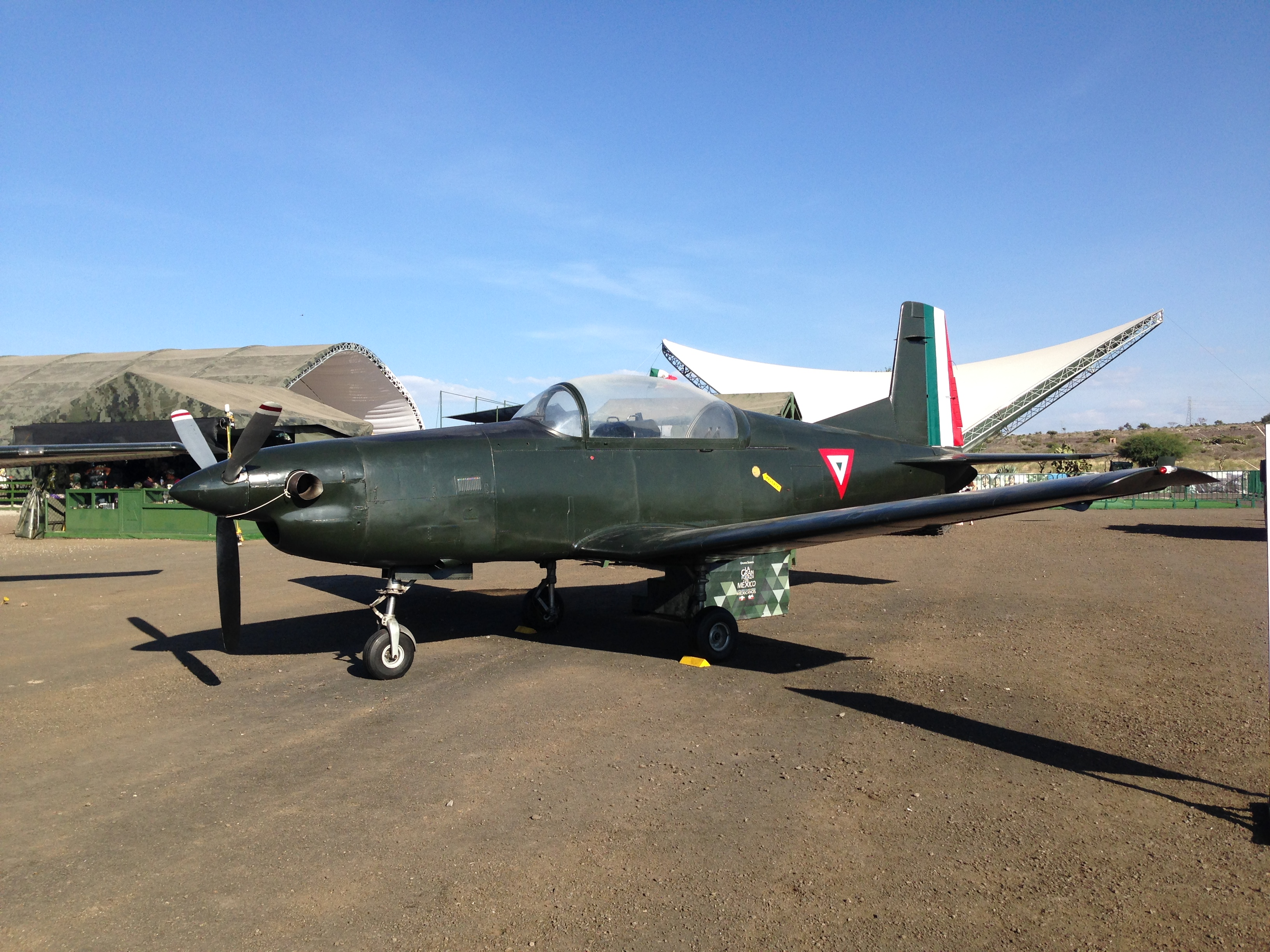 A Pilatus PC-7 aircraft owned by the Mexican Air Force on a temporary show in Queretaro.